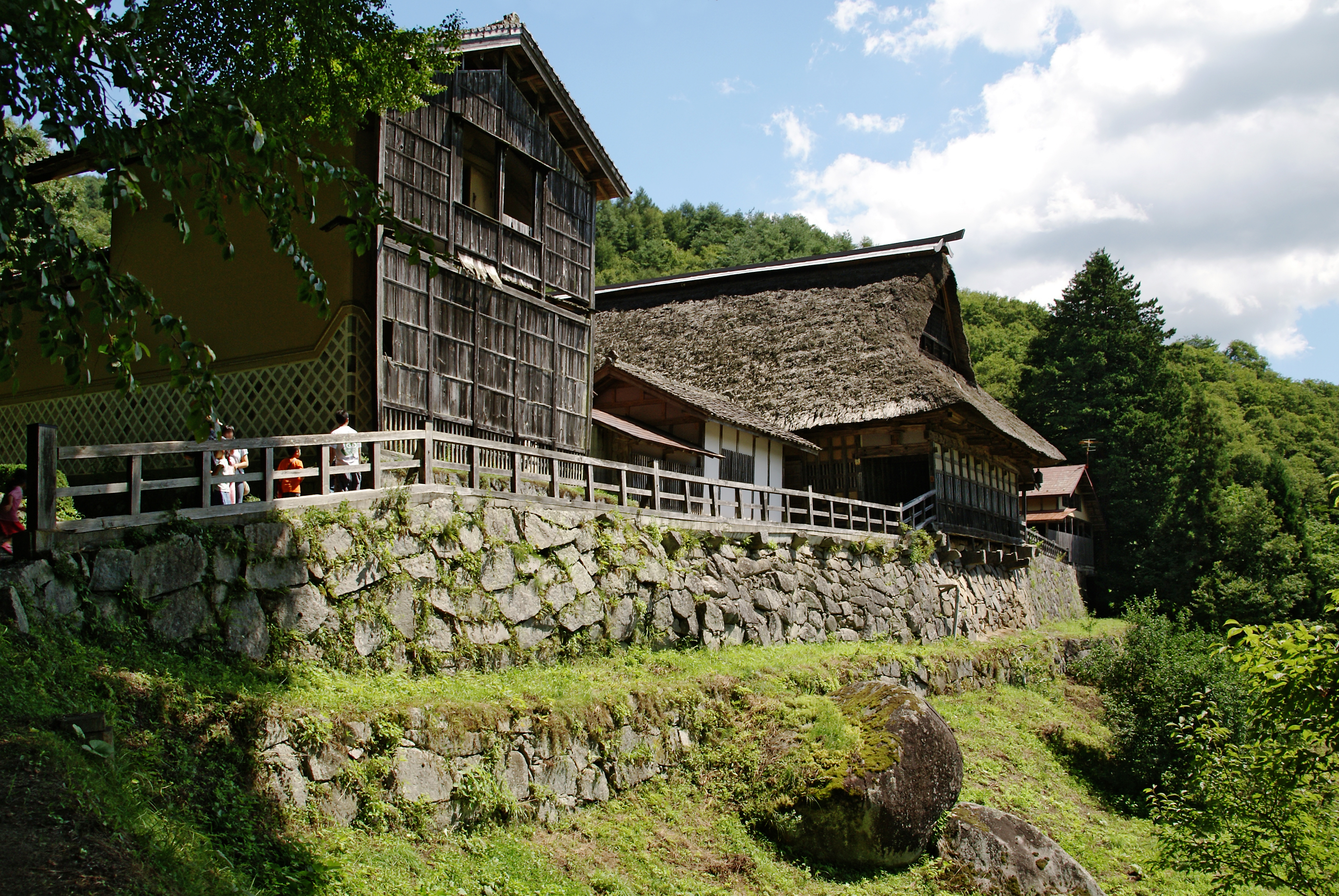 Chiba curvature house in Tono, Iwate prefecture, Japan